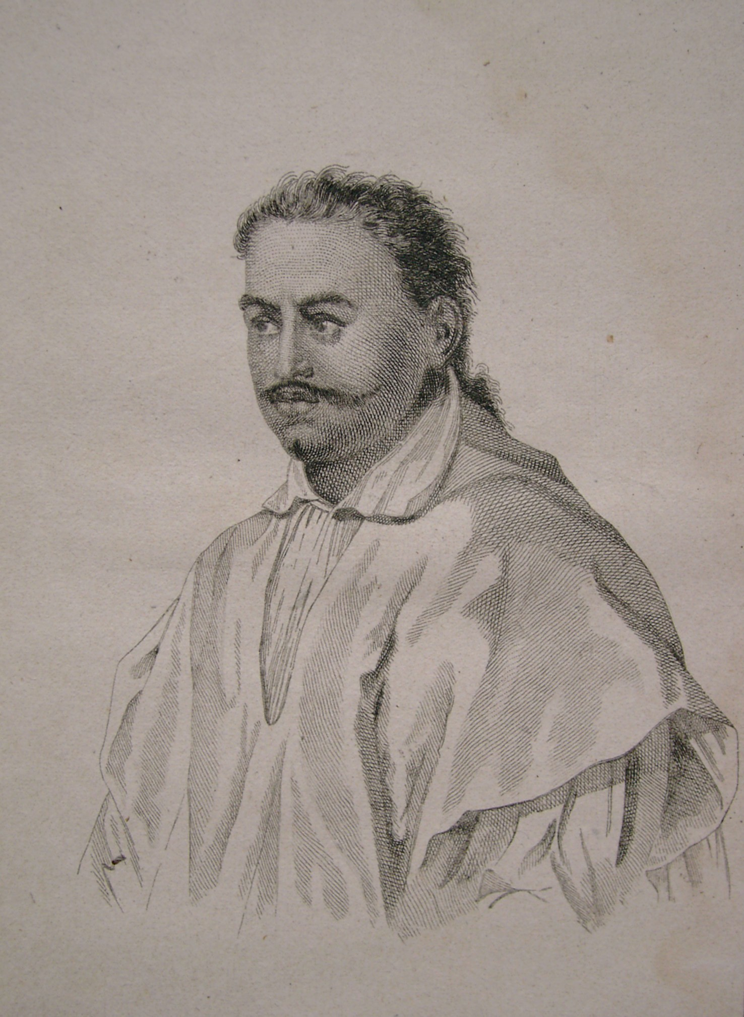 Pomare II. King of Tahiti, Steelengraving, Victor Marie Félix Danvin (1802-1842) Paris - Mme J. Lesueur - Firmin Didot (1764 -1836) Freres, Paris 1836